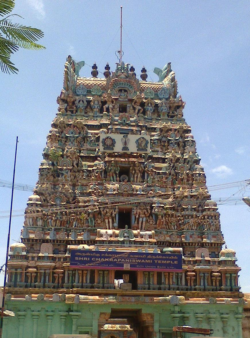 Kumbakonam Chakrapani Temple கும்பகோணம் சக்கரபாணிகோயில்